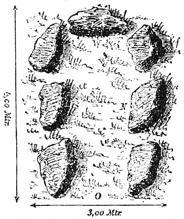 Megalithic Tomb Wohrenstorf (Sprockhoff-No. 368)